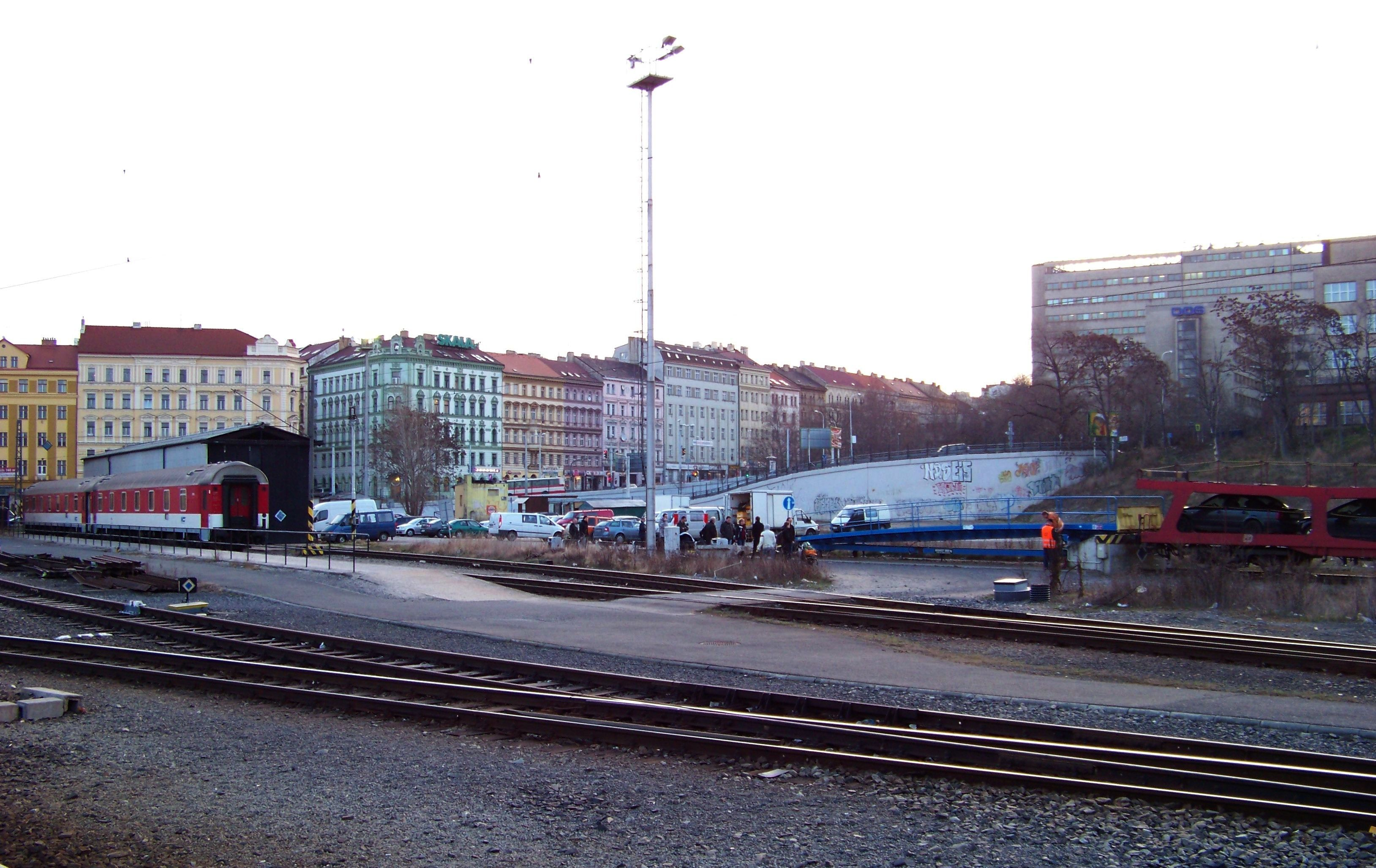 Prague-Vinohrady, the Czech Republic. Motorail terminal of the main train station (Praha hlavní nádraží).